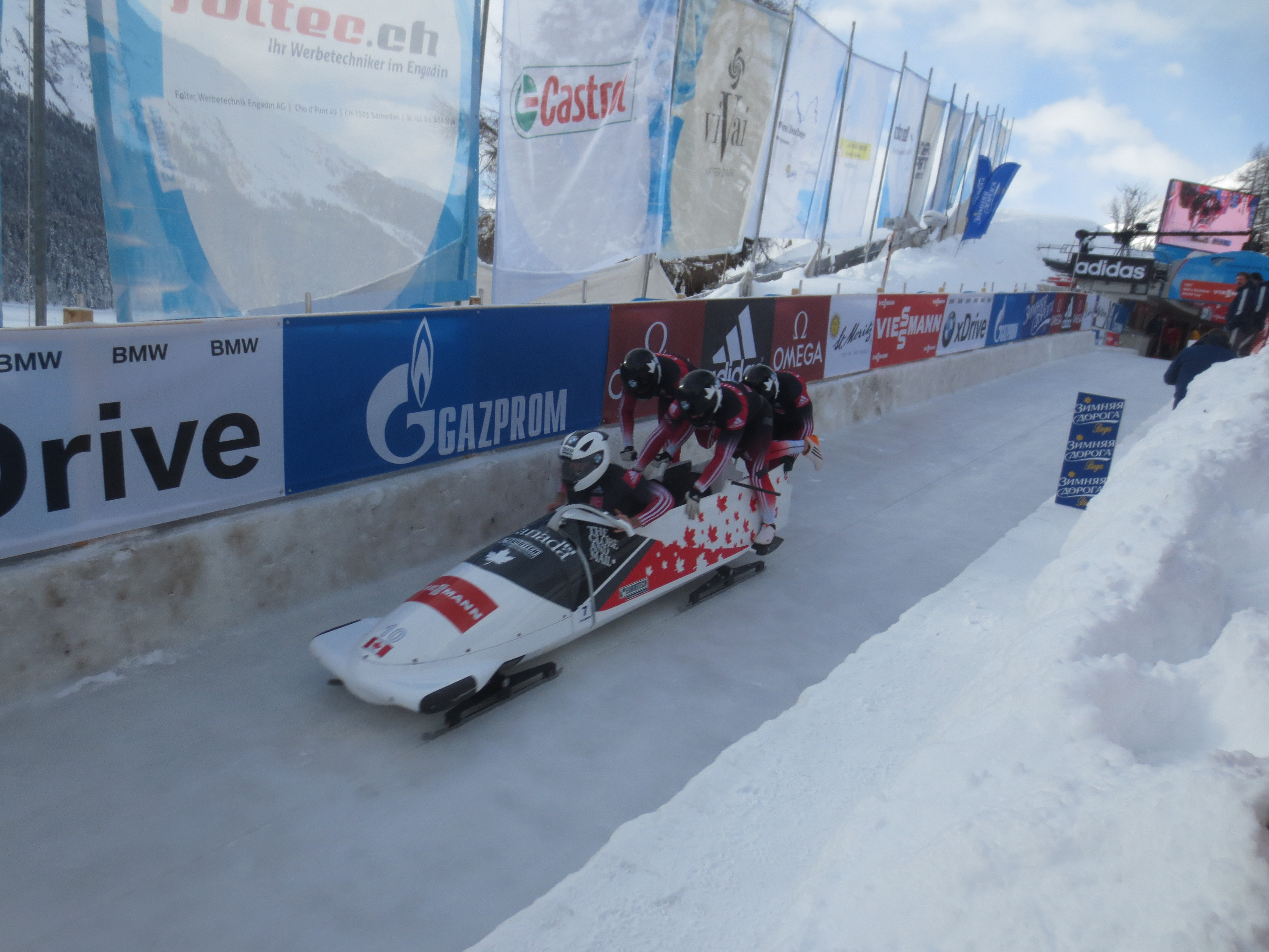 Justin Kripps, Joey Nemet, Bryan Barnett and Ben Coakwell at the 2015 Bobsleigh World Cup race in St. Moritz, Switzerland.